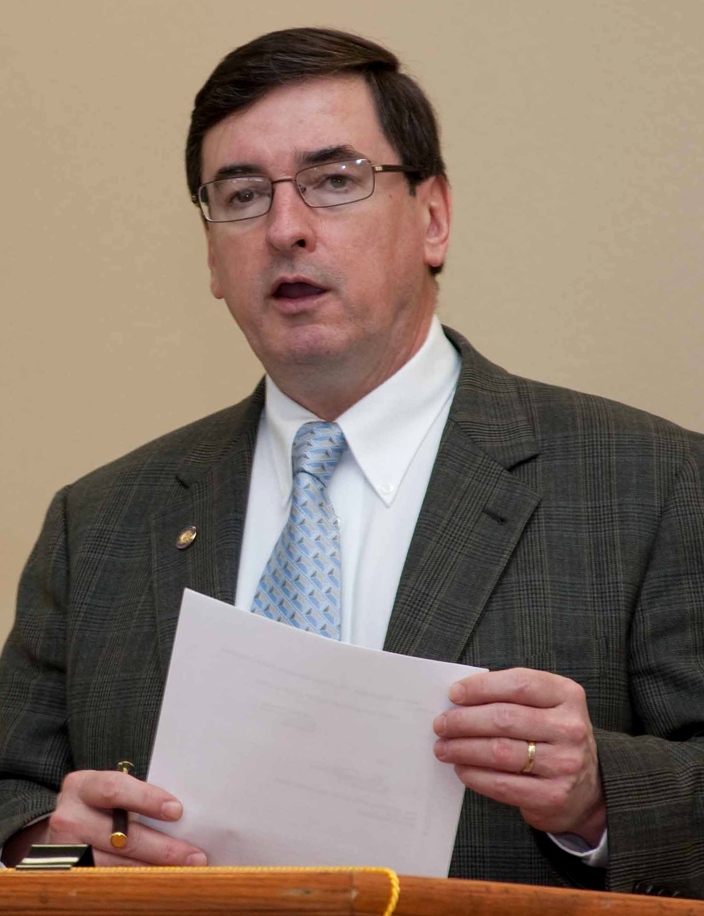 Anchorage Mayor Dan Sullivan ( photo by SSG Brehl Garza)